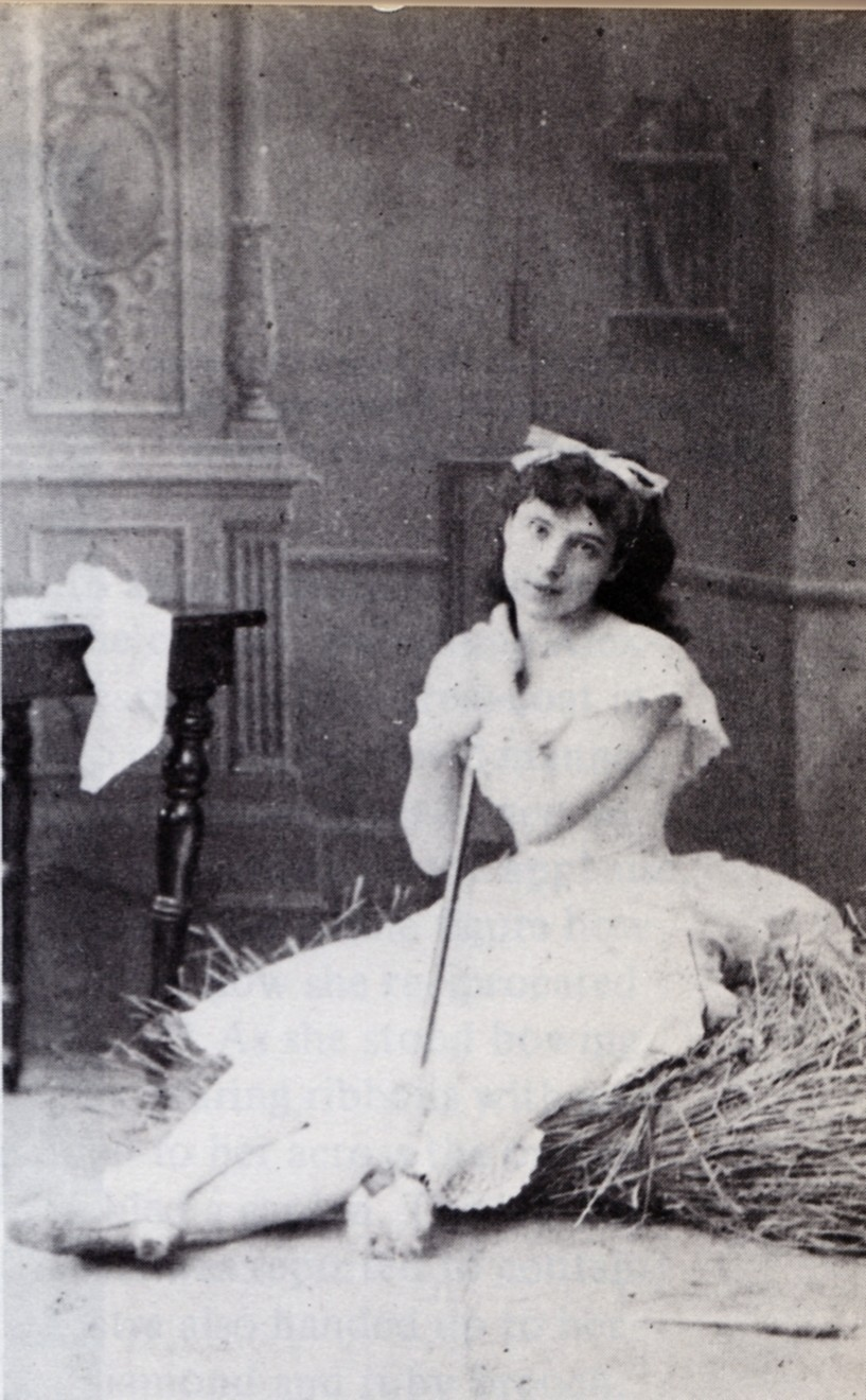 Photo by an unknown photographer of the Italian Ballerina Virginia Zucchi costumed for the role of Lise in the ballet "La Fille Mal Gardée". Photo was taken at the Imperial Bolshoi Kamenny Theatre, St. Petersburg, Russian Empire. 1885. Image was scanned from the book "The Divine Virginia - A Biography of Virginia Zucchi" by Ivor Guest. Marcel Dekker, Inc. 1977